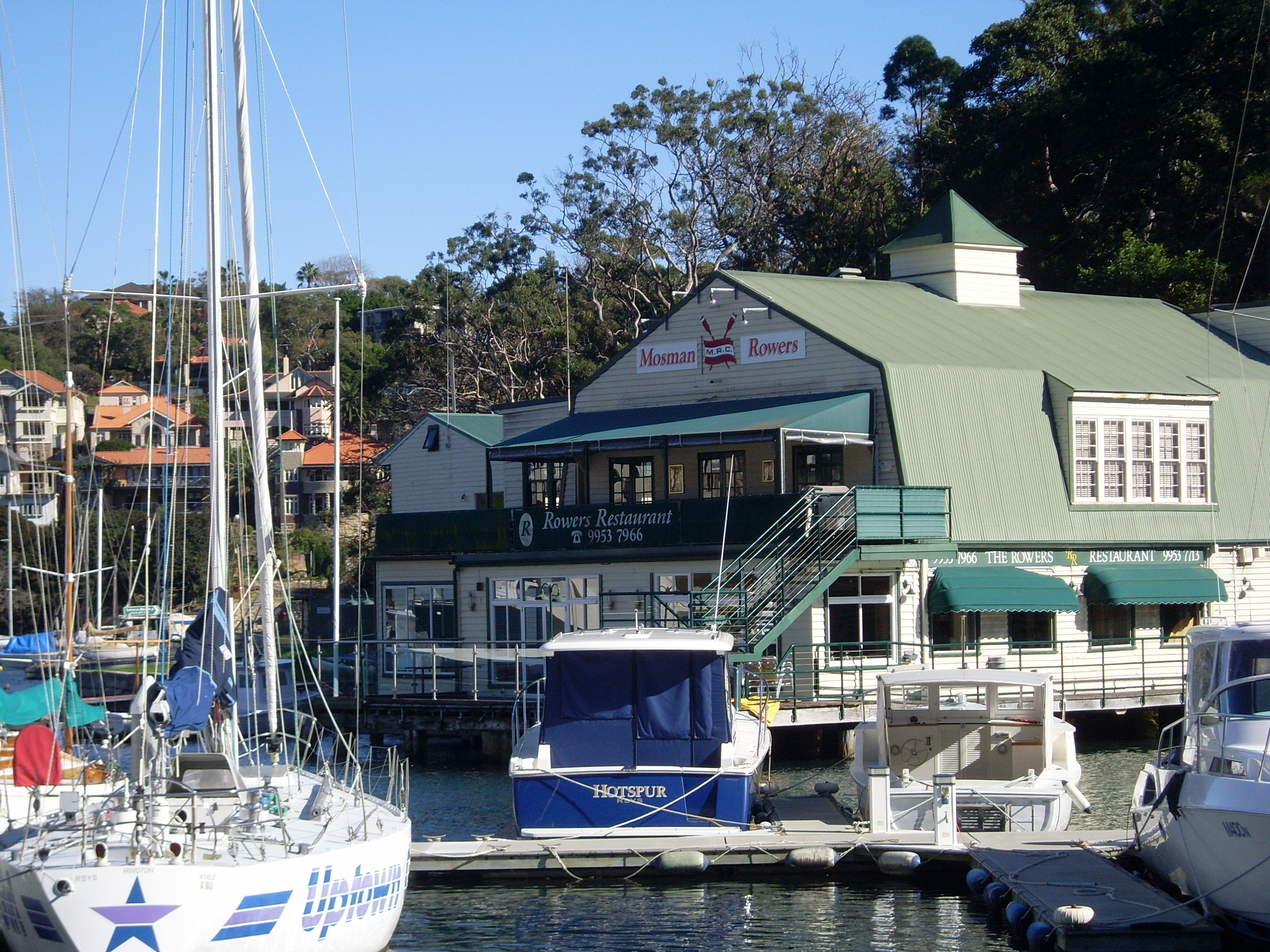 View of Mosman Rowers from Mosman Bay